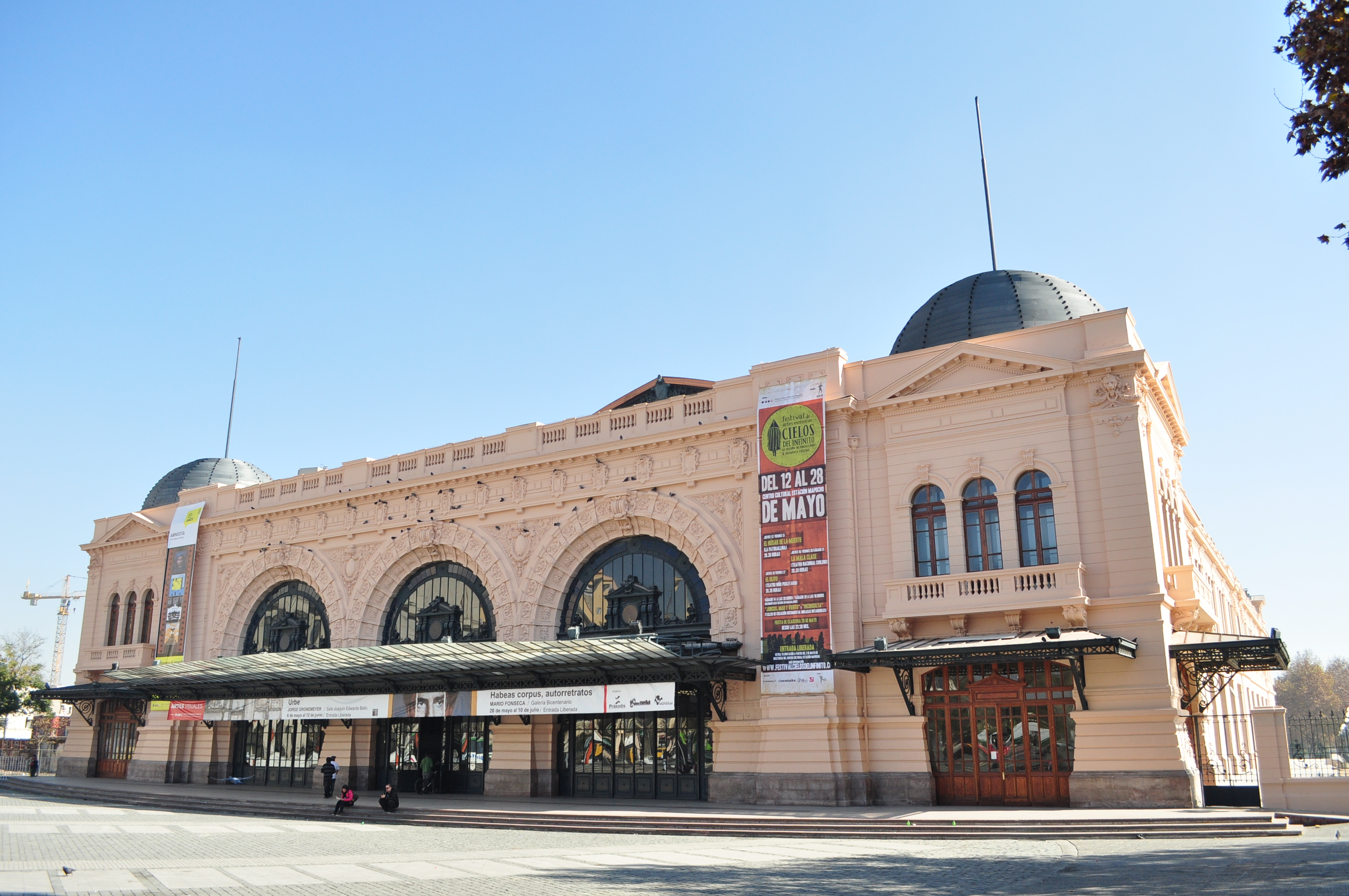 This is a photo of a national monument in Chile: 831